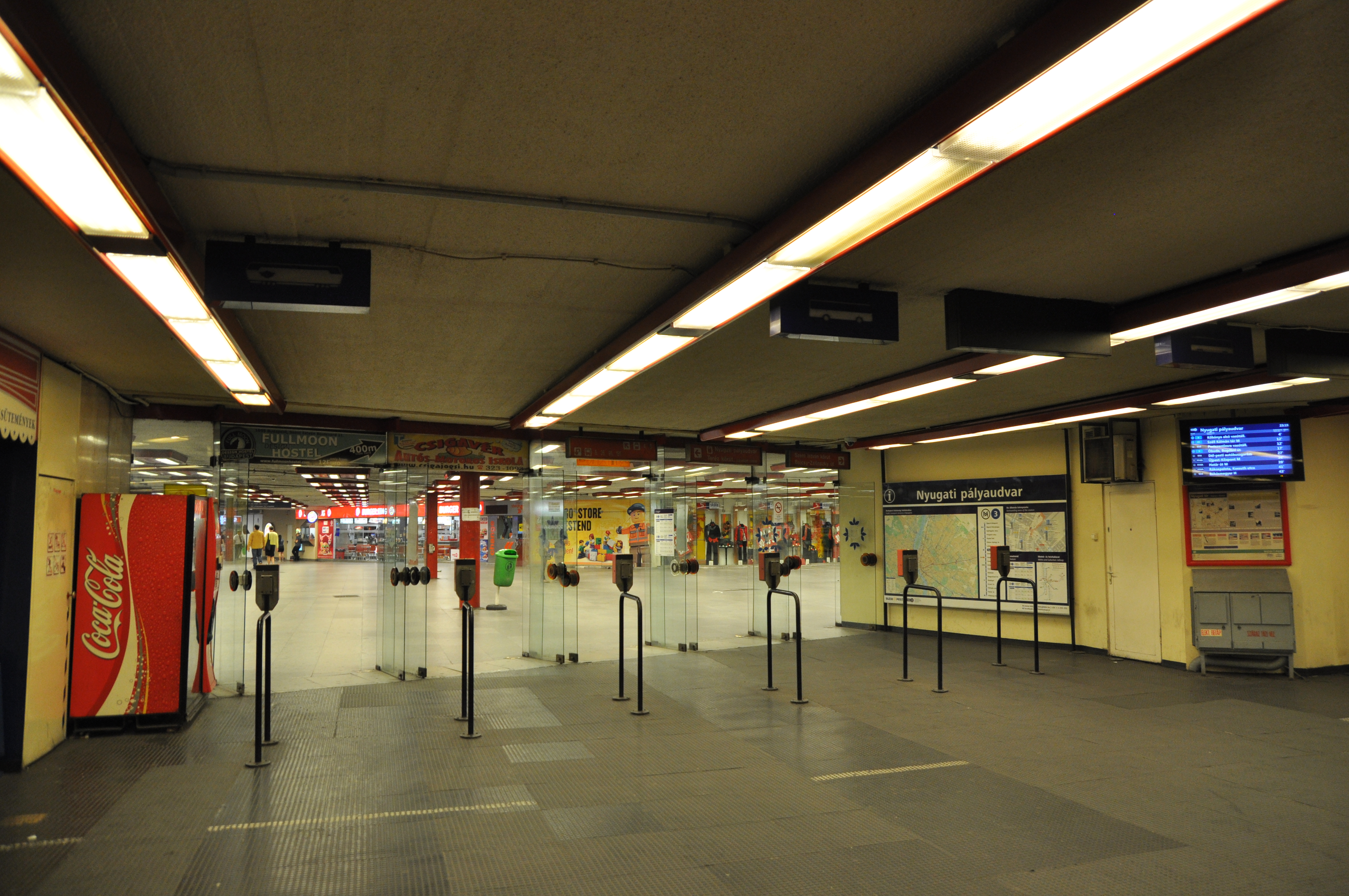 Budapest, metró 3, Nyugati pályaudvar